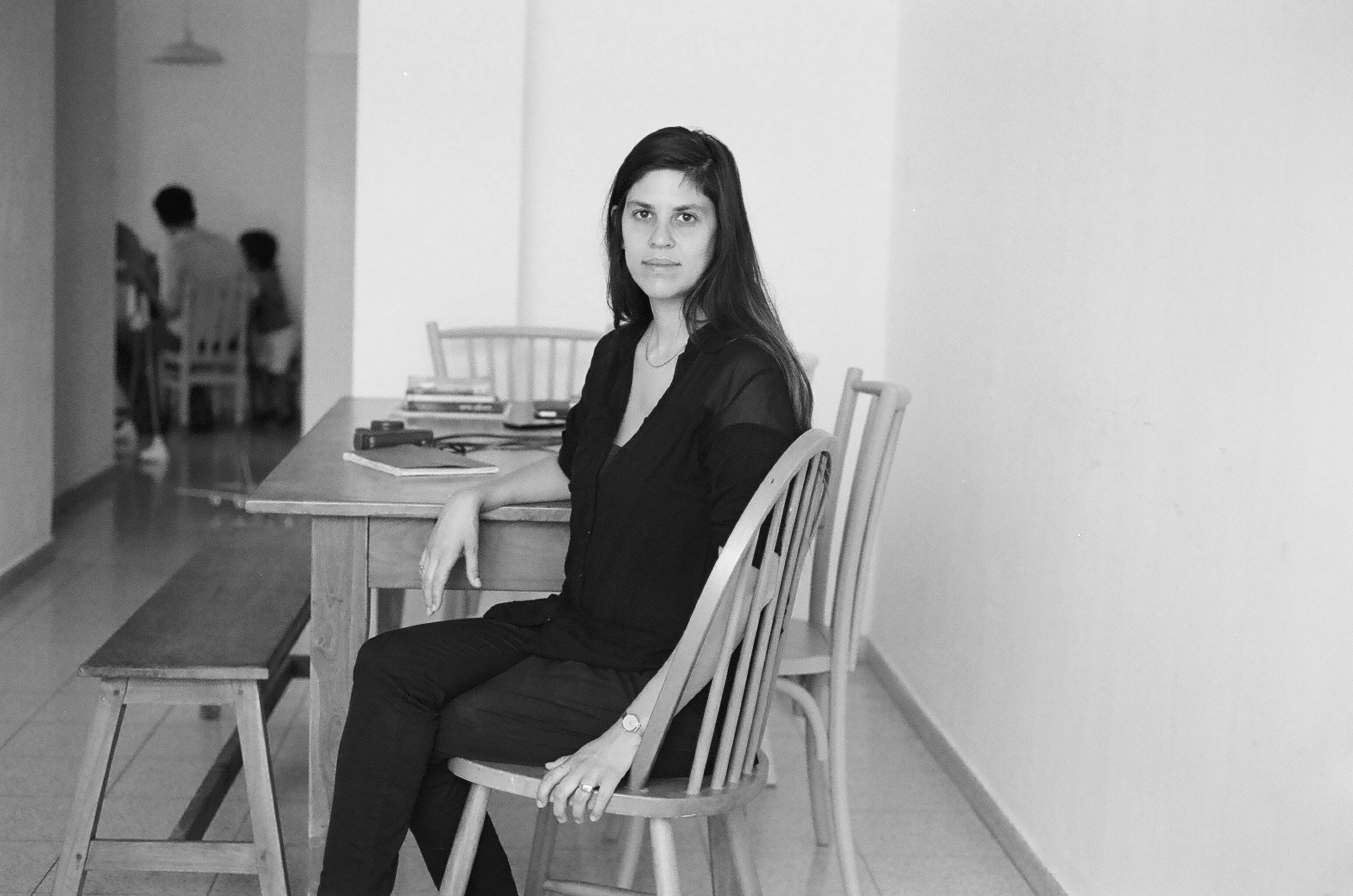 Dana Blankstein